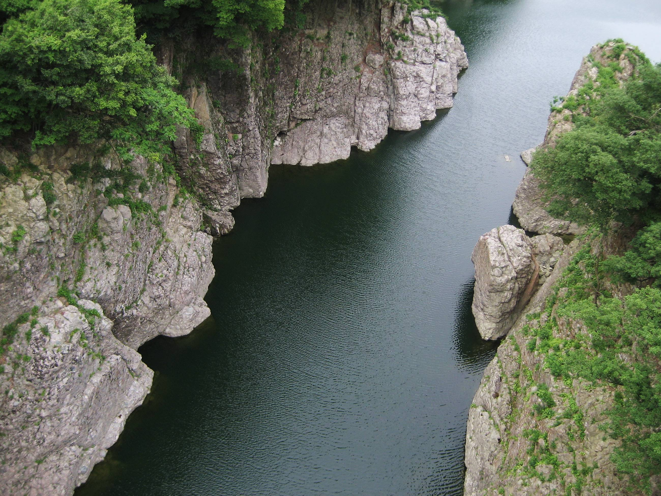 Jinzukyō.